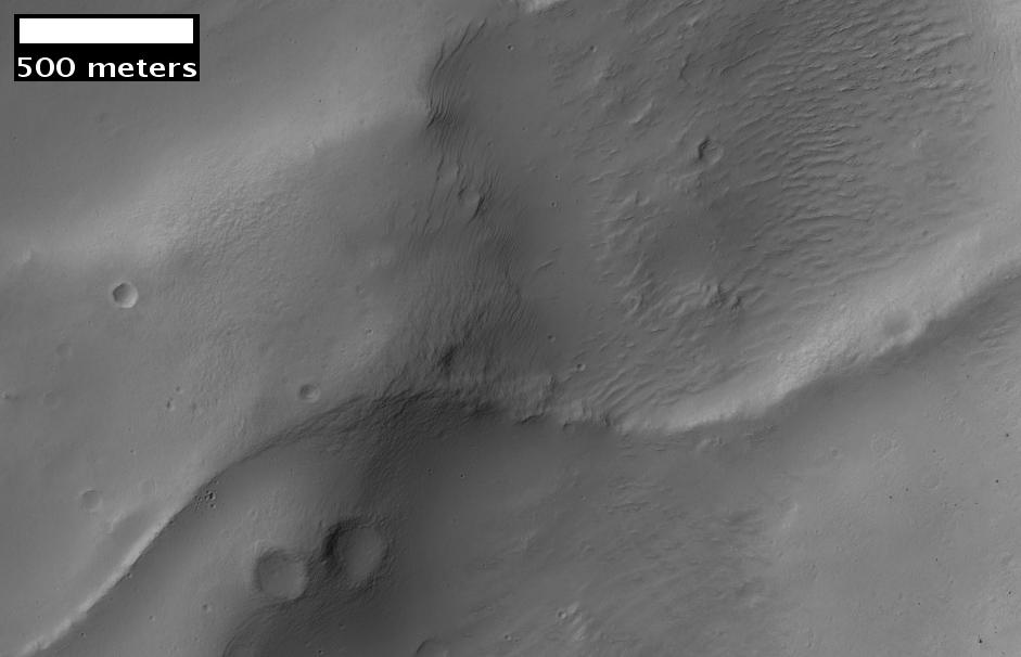 Crater ridge may be an example of invertain terrain, as seen by hirise under HiWish program. Location is 27.6 S and 167 E.